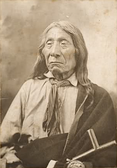 Chief Red Cloud, 1905, by Felix Flying Hawk Other information Felix Flying Hawk was the son of Chief Flying Hawk This work is in the public domain because it was published in the United States between 1925 and 1963 and although there may or may not have been a copyright notice, the copyright was not renewed. Unless its author has been dead for the required period, it is copyrighted in the countries or areas that do not apply the rule of the shorter term for US works, such as Canada (50 pma), Mainland China (50 pma, not Hong Kong or Macao), Germany (70 pma), Mexico (100 pma), Switzerland (70 pma), and other countries with individual treaties. See Commons:Hirtle chart for further explanation.